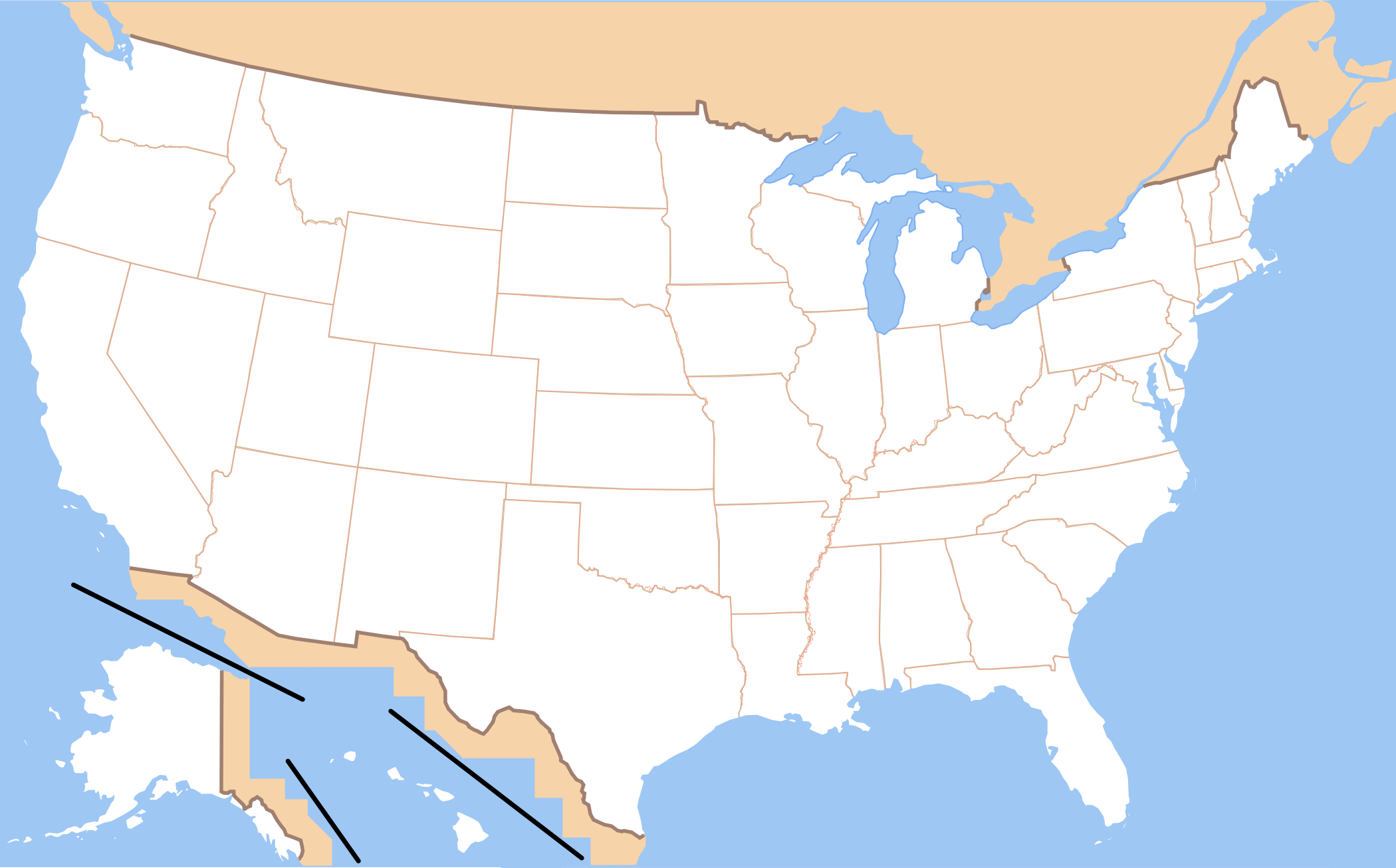 Derived from File:Map of USA without state names-revised.svg